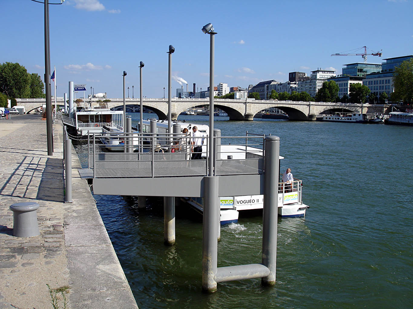 Bercy pier, river shuttle Voguéo, on the river Seine in Paris, France